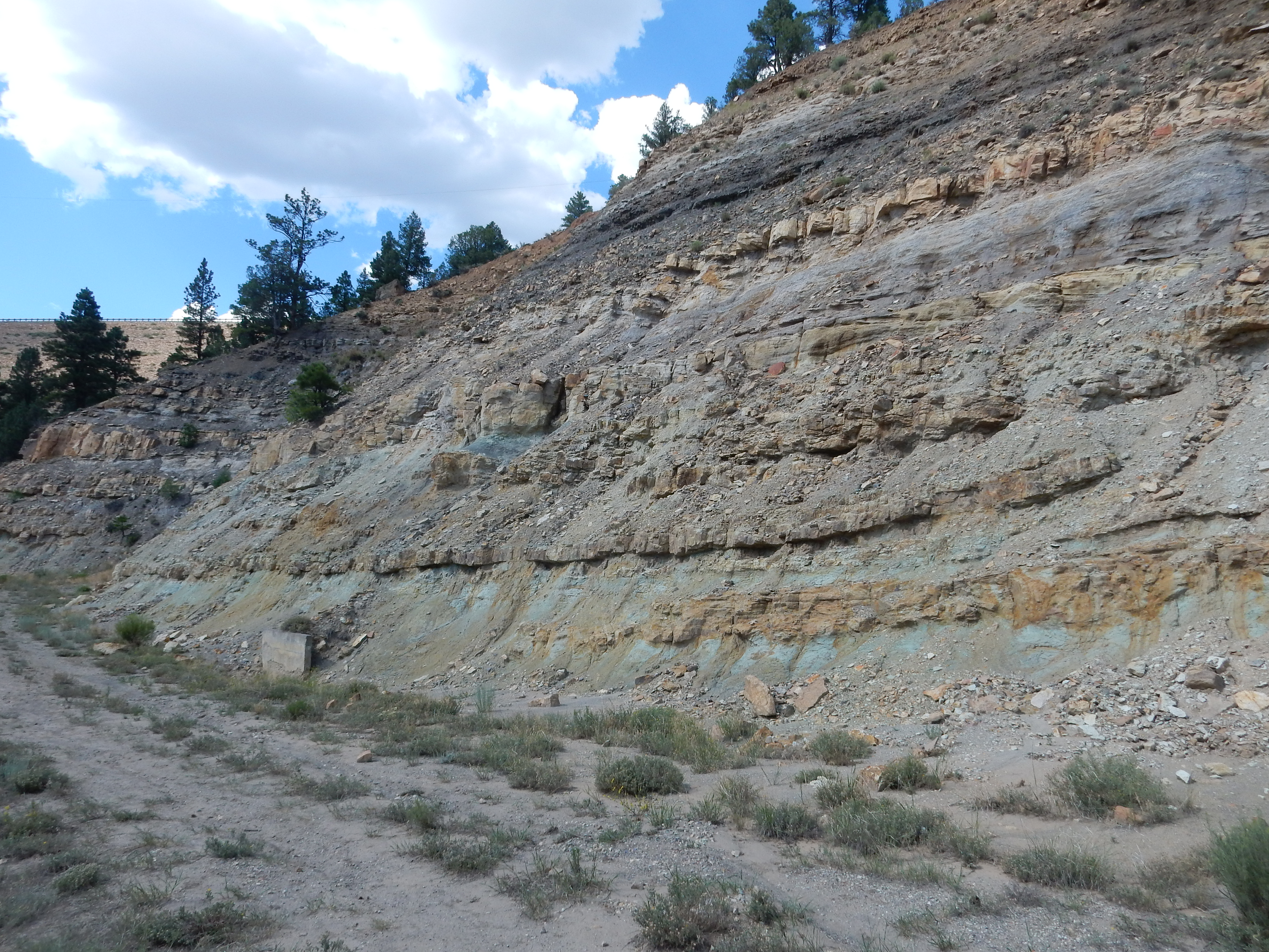 Sandstone, mudstone, and conglomerate beds of the Burro Canyon Formatin exposed in the spillway of Heron Lake. This is the earliest Cretaceous formation of the Chama Basin and underlies the Dakota Formation (whose base is the carboniferous layer near the top.)